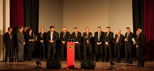 Homenaje en Minas de Riotinto a Selección Española de futbol Dirección Rafael Prado